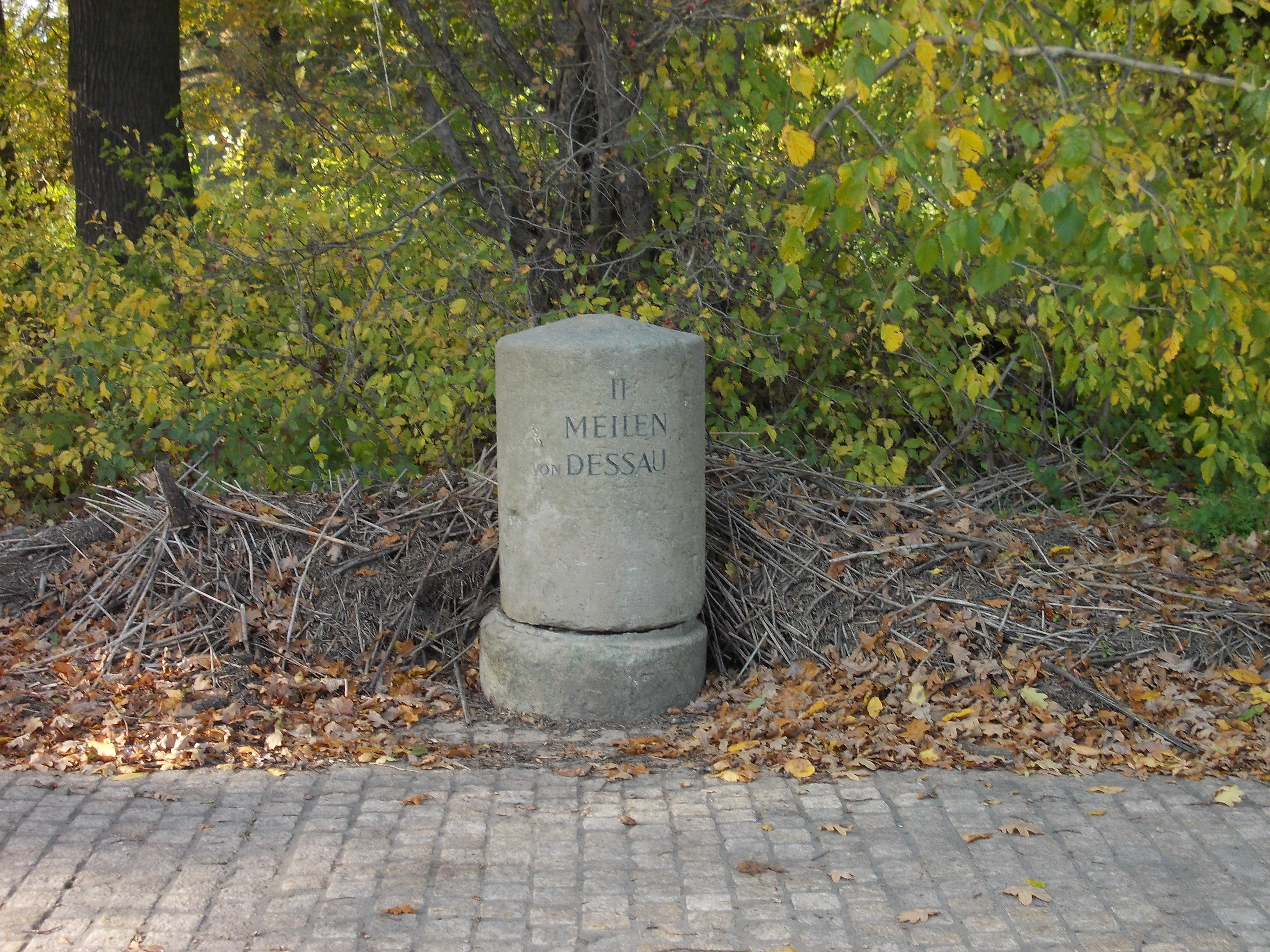 Milestone near Wörlitz (Oranienbaum-Wörlitz, Wittenberg district, Saxony-Anhalt)